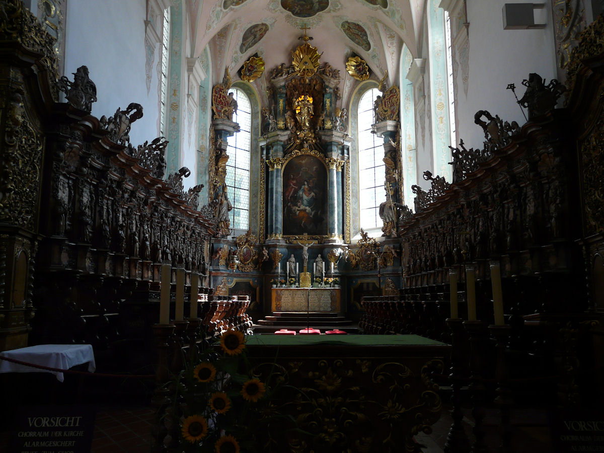 Church of St. Magnus (Kloster Schussenried) in the town of Bad Schussenried in Upper Swabia in Germany